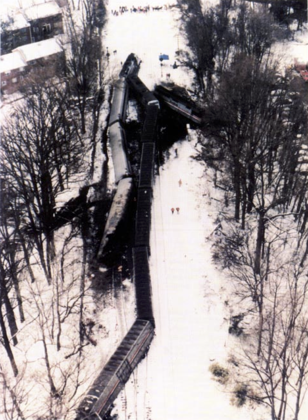 Aerial view of the collision.